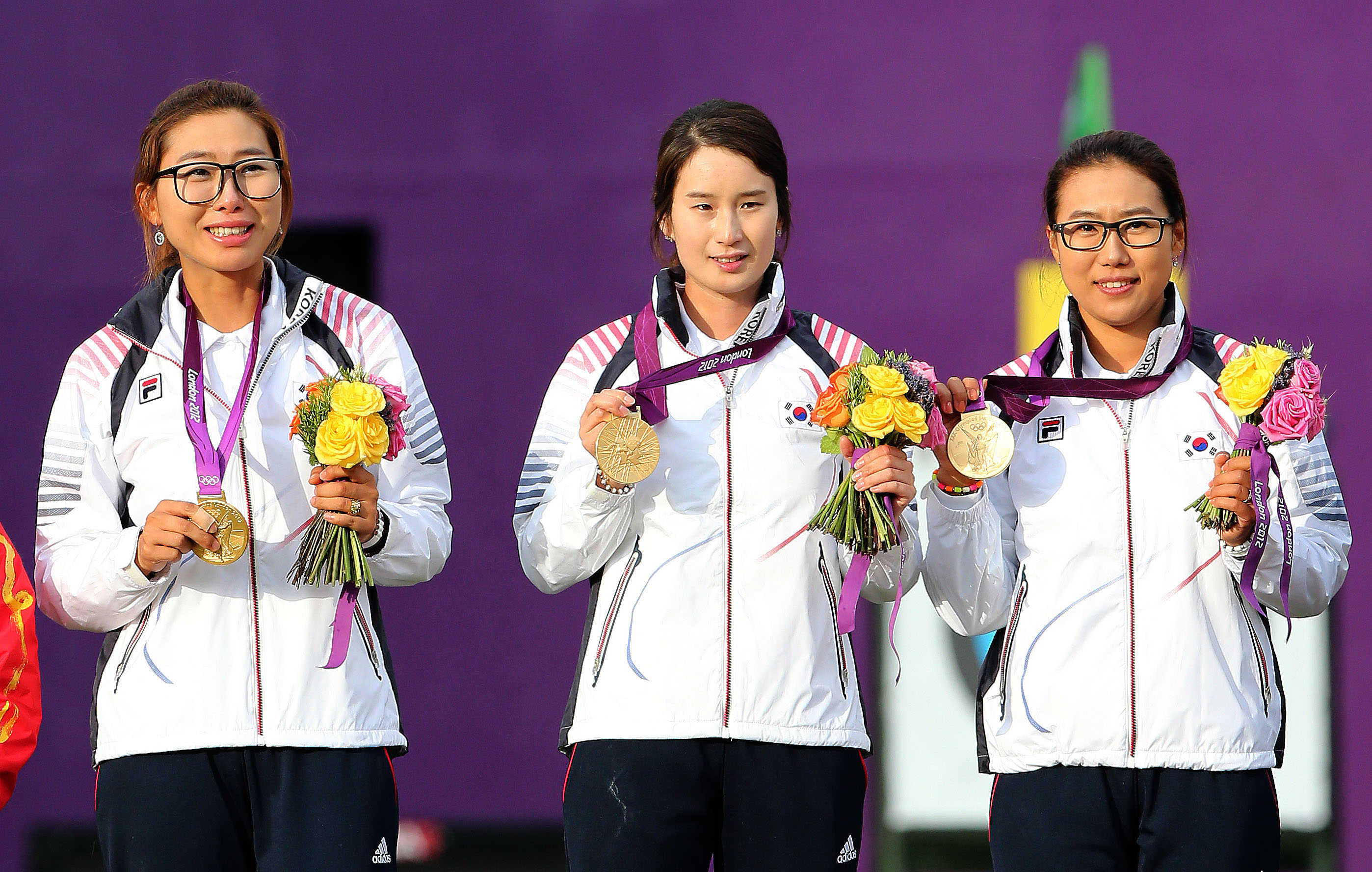 2012 London Olympic Games Korea Archery Women's Team won the gold medal 2012.7.30. Photo by Korean Olympic Committee Ministry of Culture, Sports and Tourism Korean Culture and Information Service 2012 런던 올림픽 한국 여자양궁 대표팀 단체전 금메달 획득 사진제공 - 대한체육회 문화체육관광부 해외문화홍보원